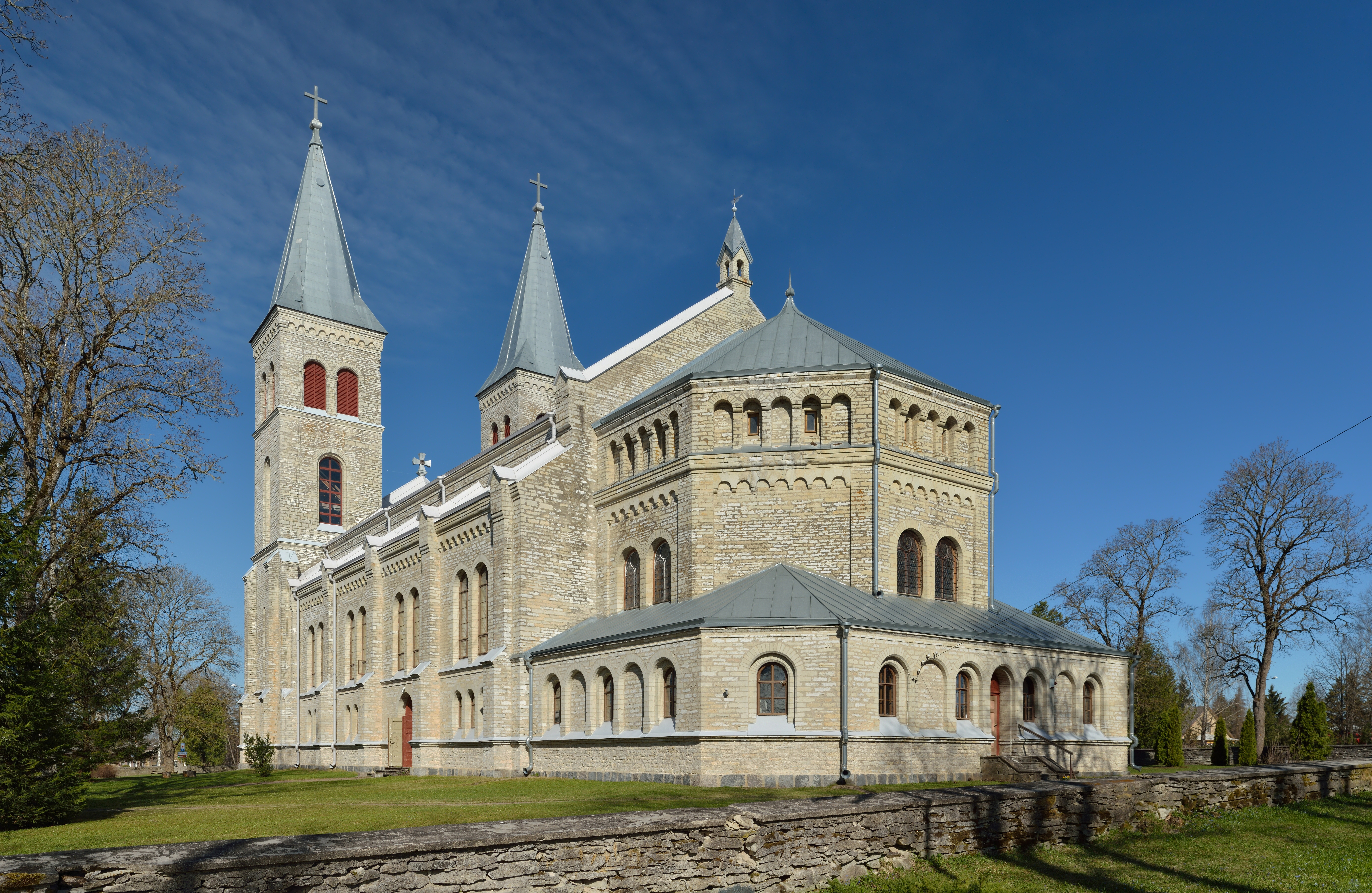 Rapla St Mary Magdalene Church, built in 1899-1901